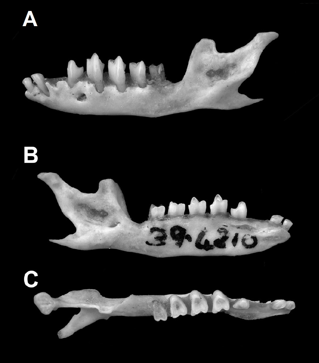 Hemimandible of Notoryctes typhlops in medial (A), lateral (B) and oclusal views (C). Specimen BMNH 39.4210